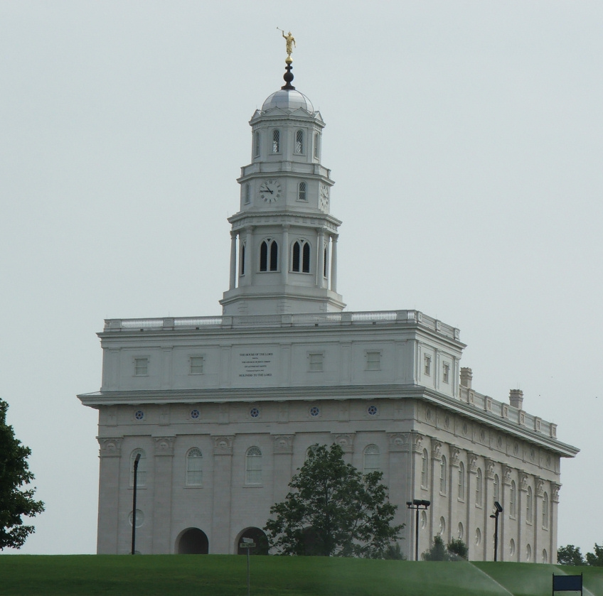 The Nauvoo Illinois Temple of The Church of Jesus Christ of Latter-day Saints. Photo taken August 2005.